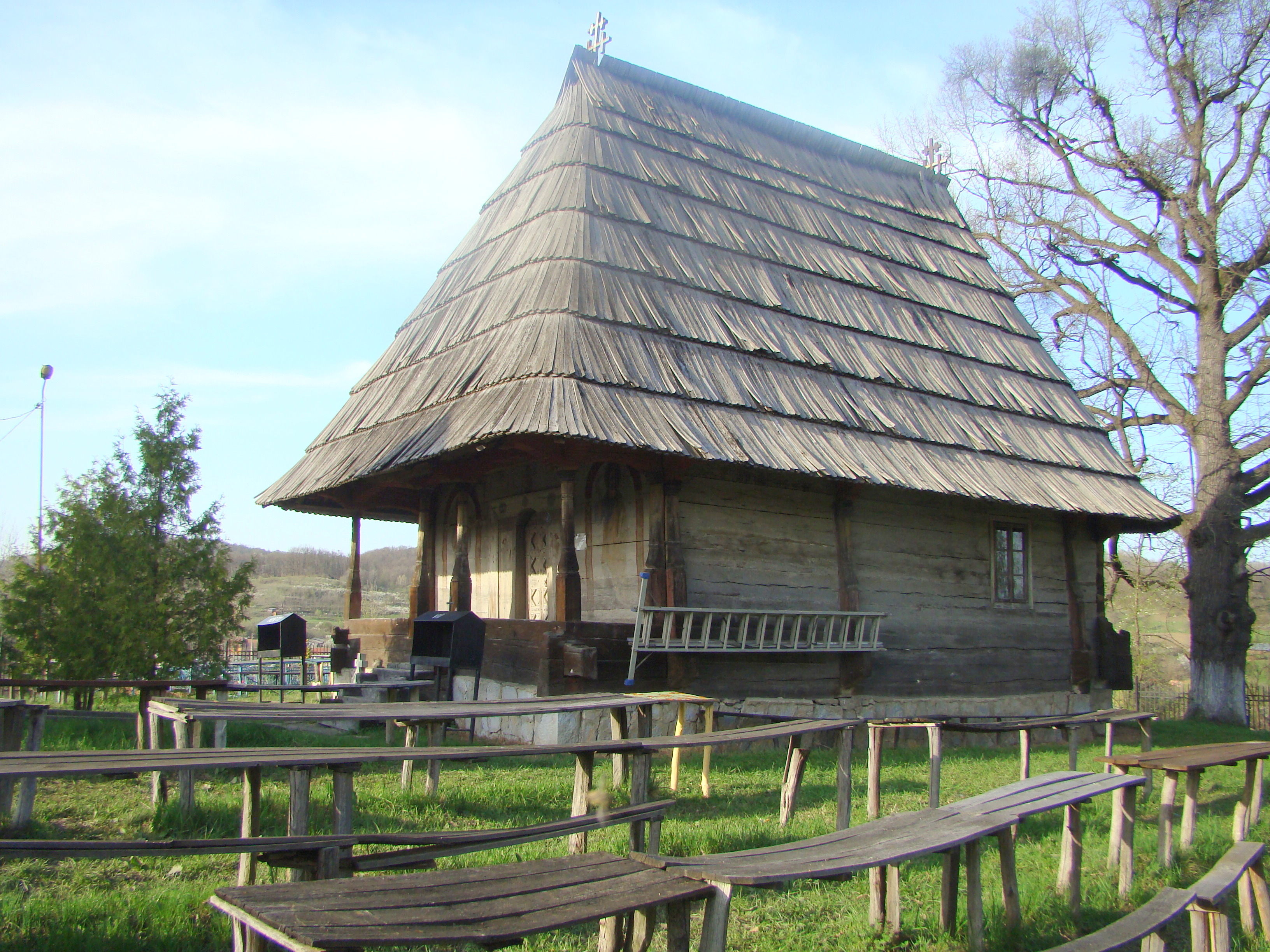 Wooden church in Negomir, Gorj county, Romania